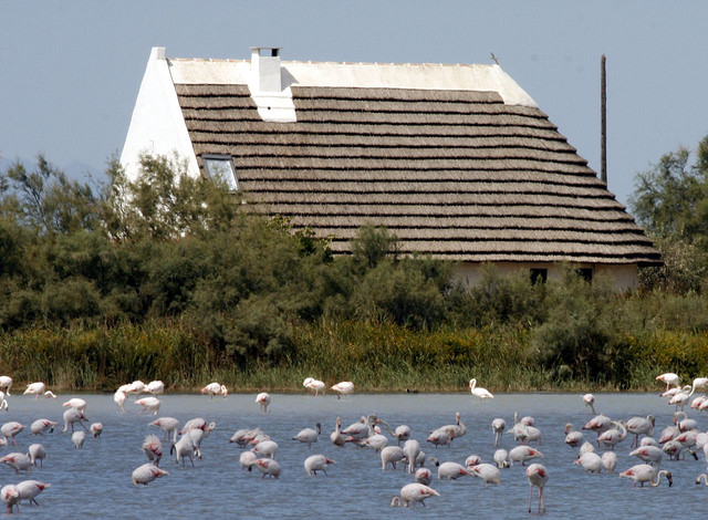 Flamingoes and Gardian's cabin in the Camargue